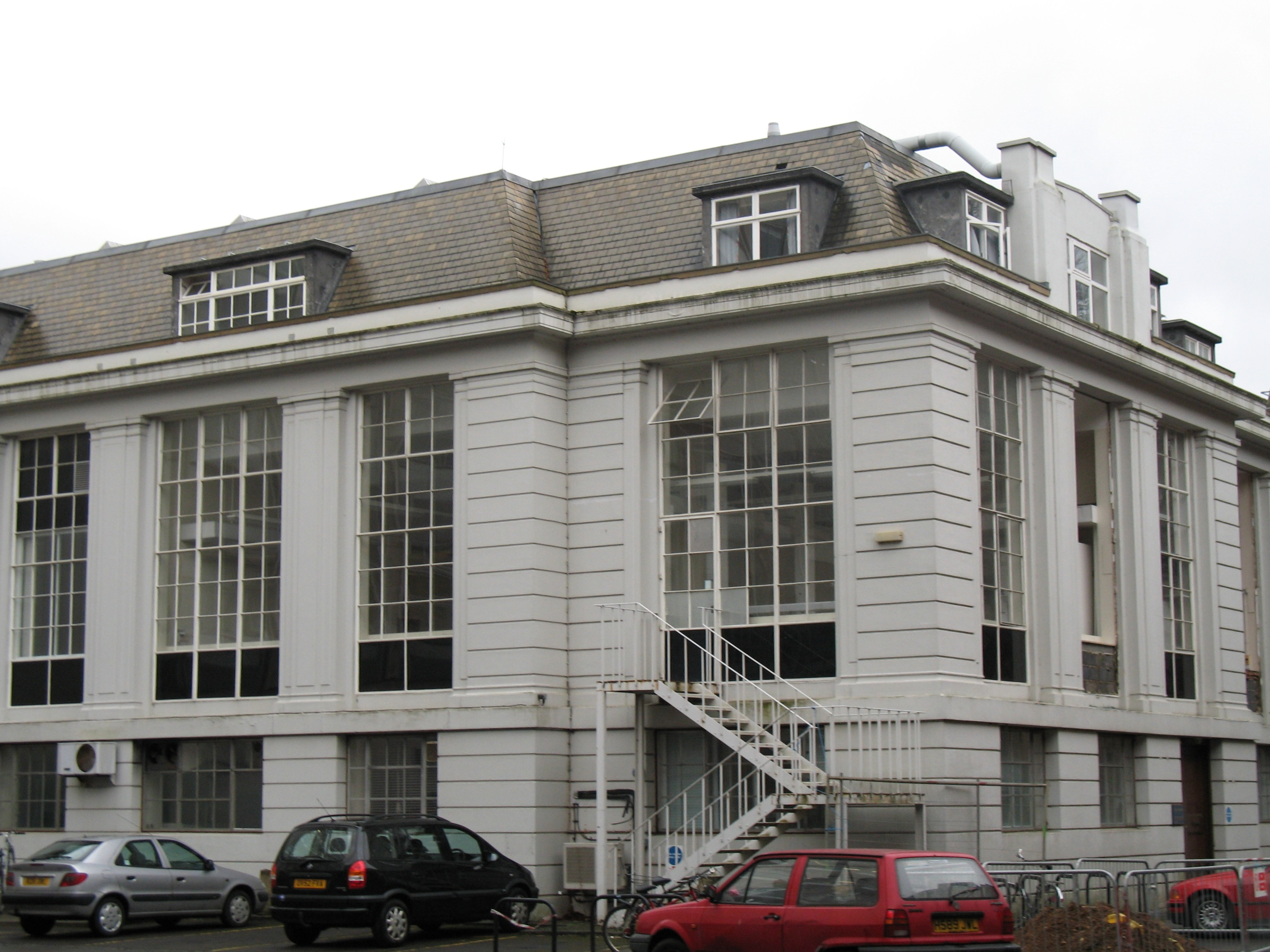 Rudolph Peters Building, designed by Paul Waterhouse, was one of the buildings of the Department of Biochemistry of Oxford University until it was demolished in 2006